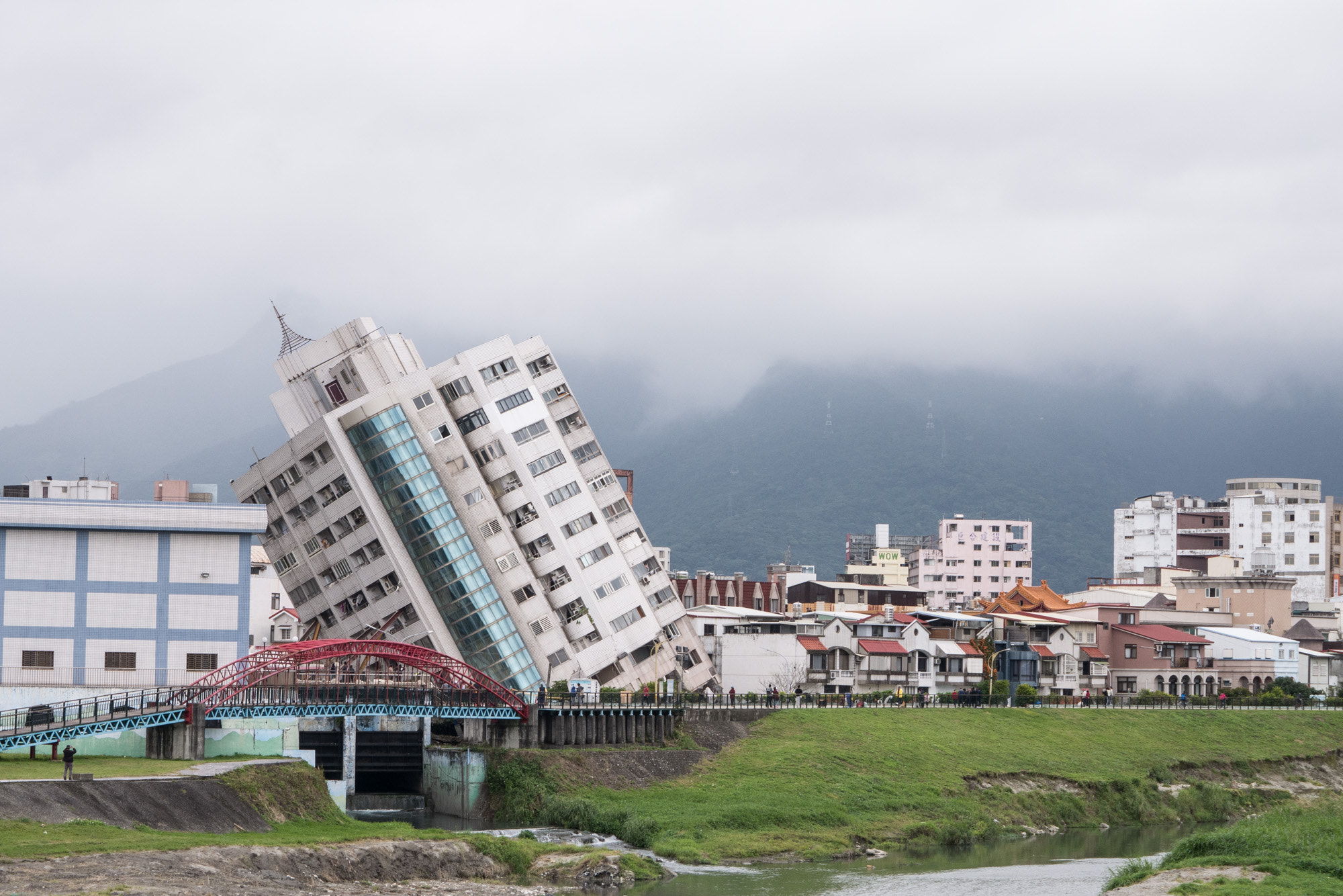 500px provided description: At 23:50 local time on 6 February 2018, an earthquake of magnitude 6.4 on the moment magnitude scale hit Taiwan. The epicenter was on the coastline near Hualien, which was the most severely affected area with a maximum felt intensity of VII (very strong) on the Mercalli intensity scale. At least 12 deaths have been reported, with more than 277 injured. 2018 Hualien earthquake, (last visited Feb. 10, 2018). [#Taiwan ,#Hualien ,#Earthquake ,#Natural Diaster]